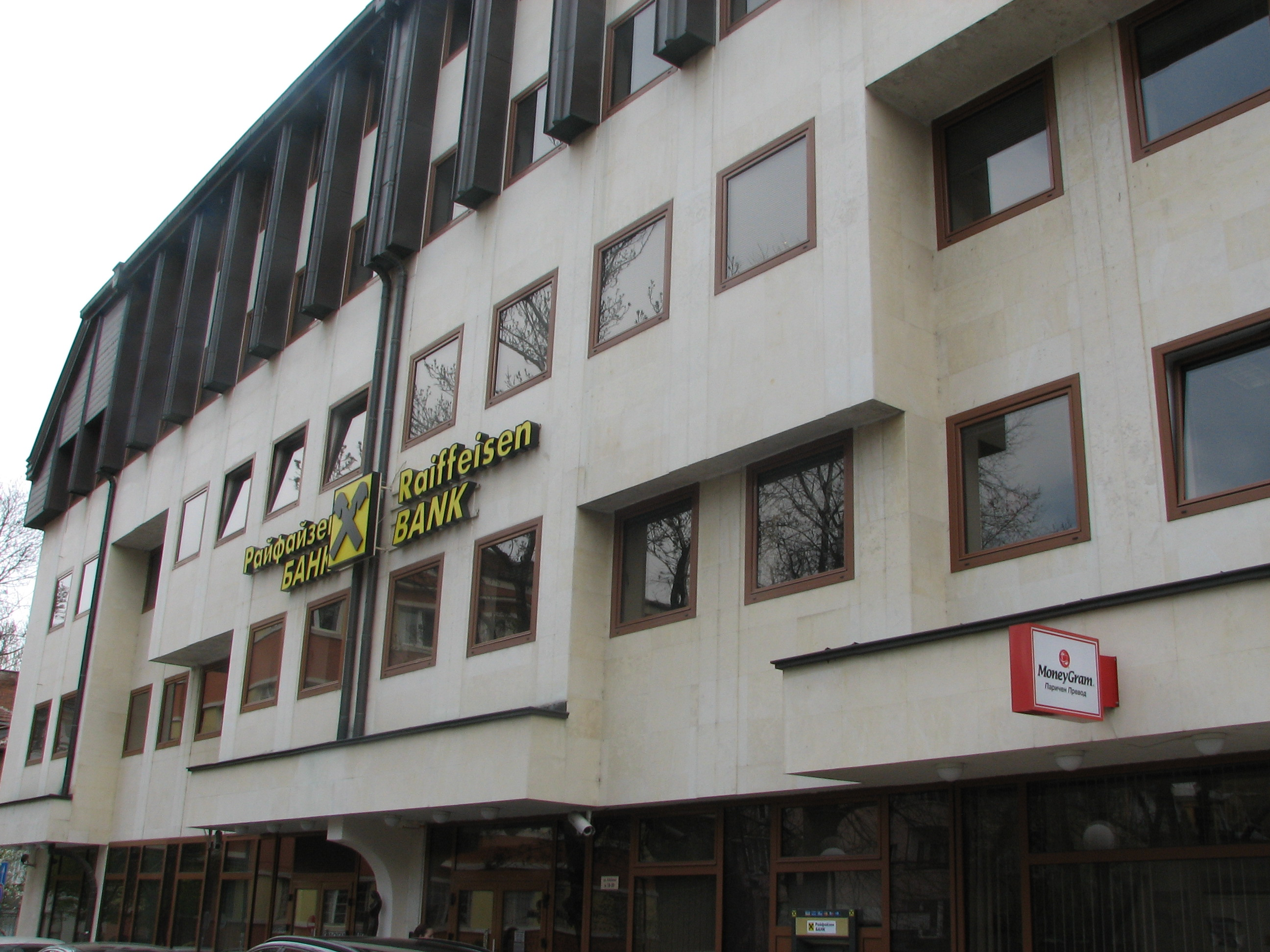 Central office of Raiffeisenbank Bulgaria in Sofia